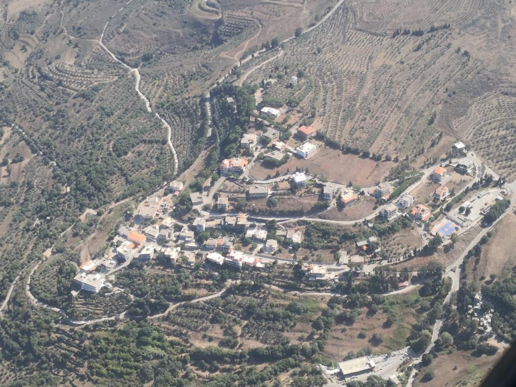 Aerial view of Charbila